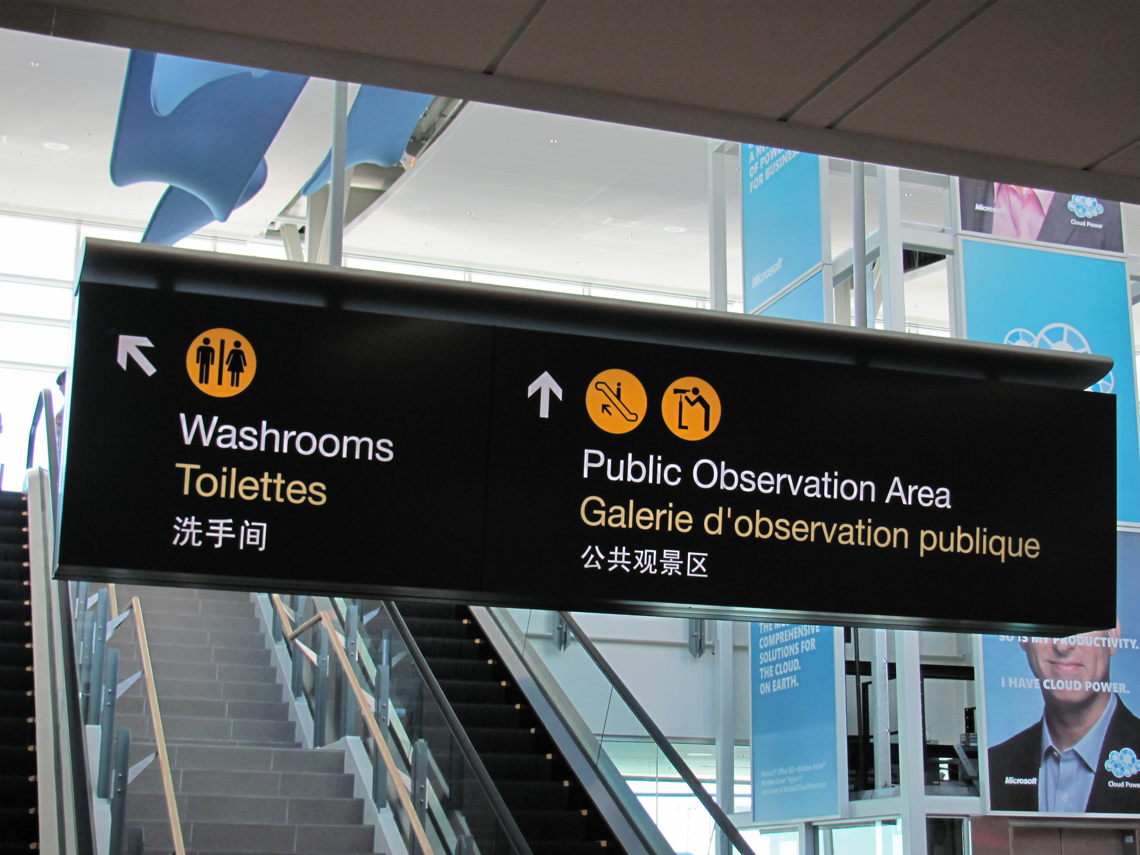 Example of trilingual sign (English - French - Chinese) at Vancouver International Airport, domestic terminal